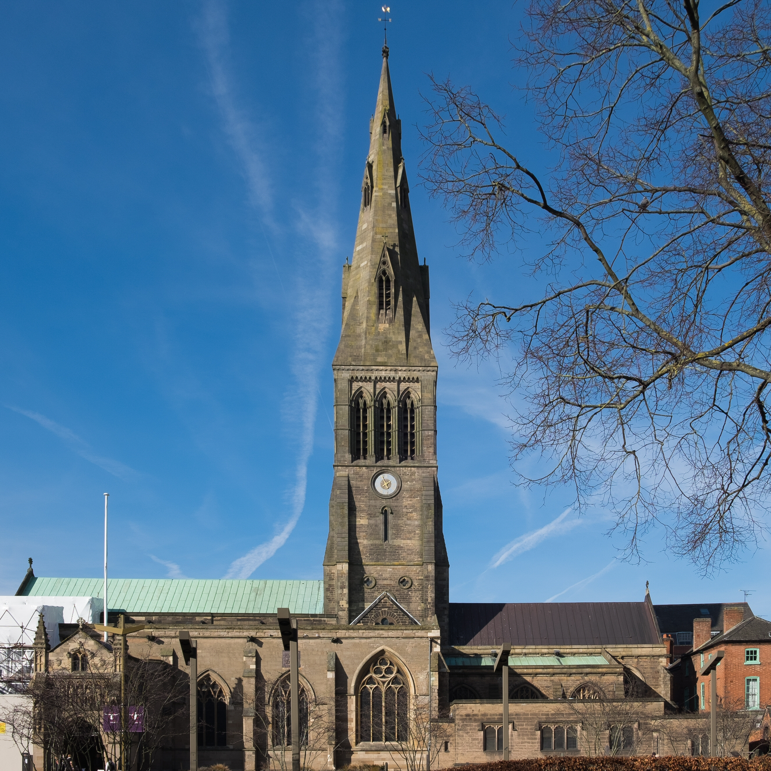 Leicester Cathedral, Leicester, England - viewed from the south across the Cathedral Gardens. This building (also known as St Martin's Cathedral) is a grade II* listed building in England.